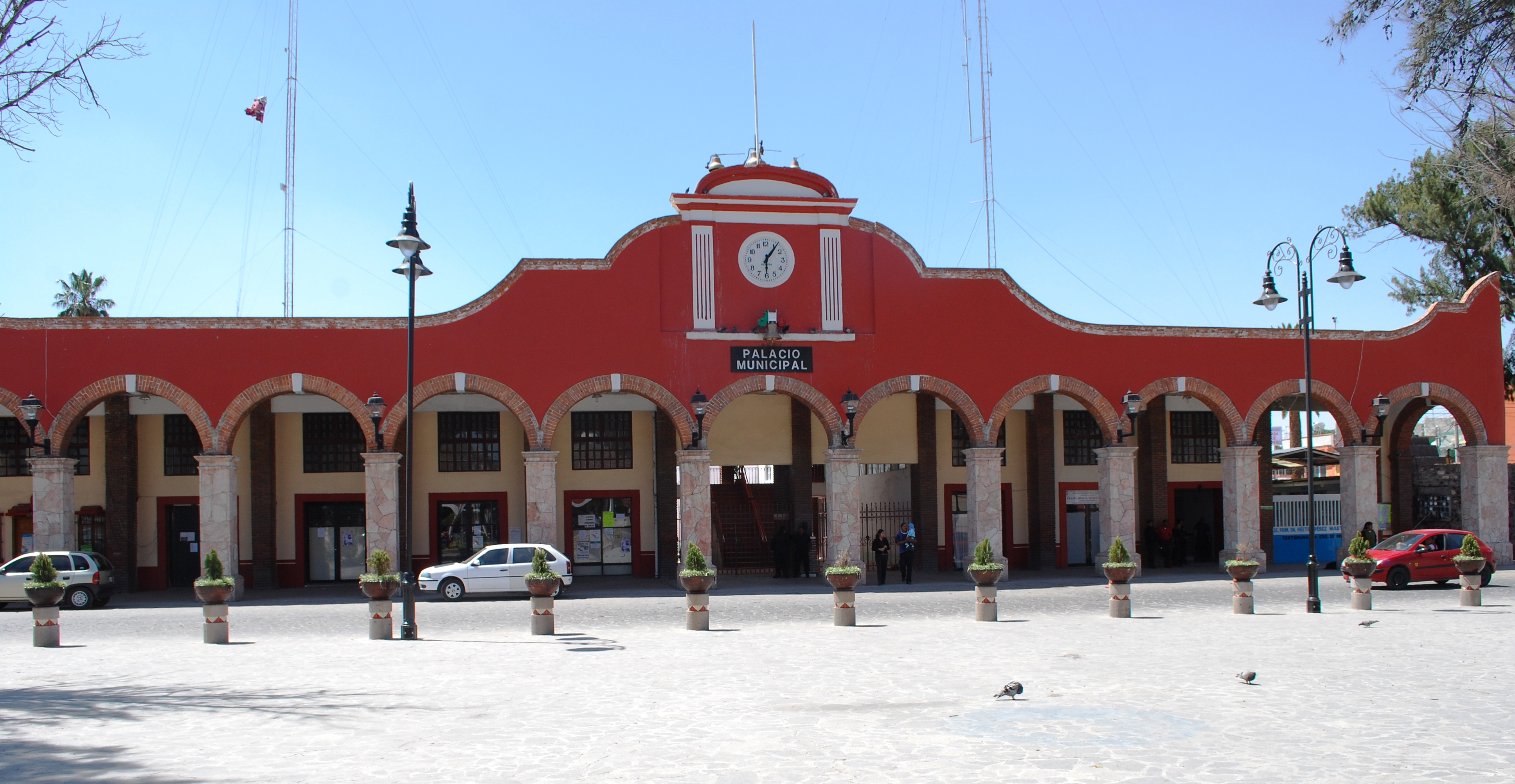 Municipal palace of Teotihucan, Mexico State